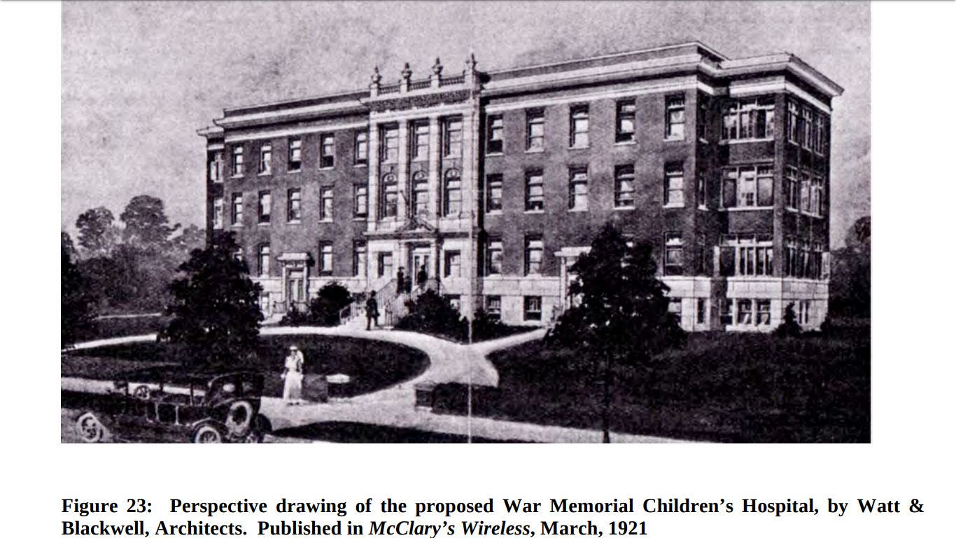 Perspective drawing of the proposed War Memorial Children’s Hospital, by Watt & Blackwell, Architects. Published in McClary’s Wireless, March, 1921.